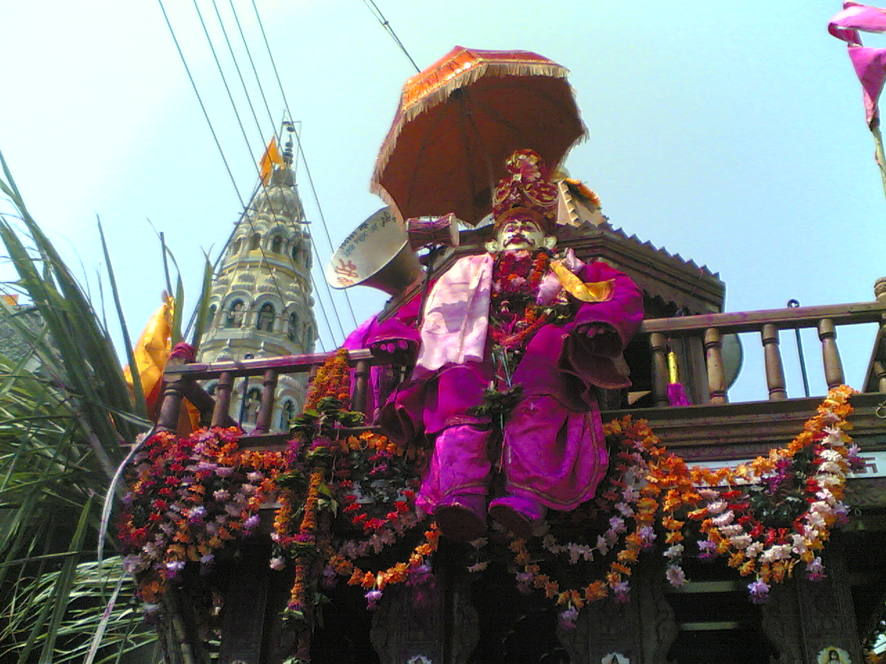 Srinath temple and "Rath "